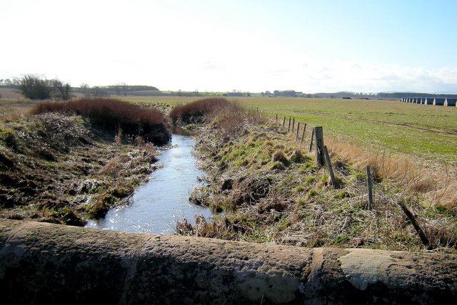 View of Luther Water looking downstream Picture taken looking west, from the bridge over the Luther Water on the Haulkerton / Laurencekirk road.